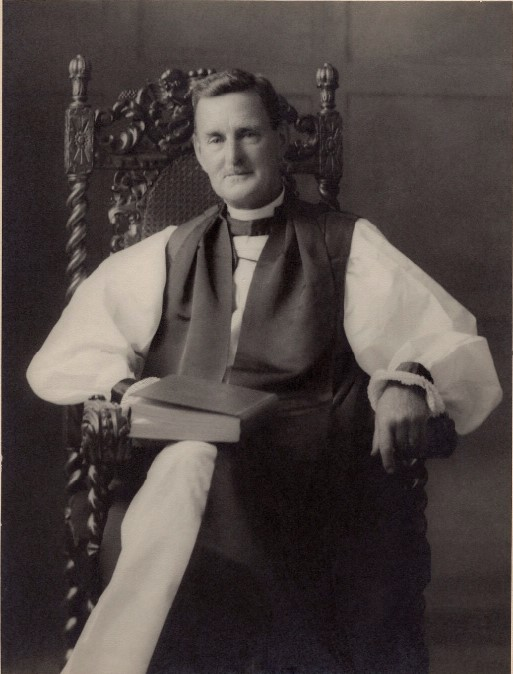 The Right Reverend George Frederick Bingley Morris